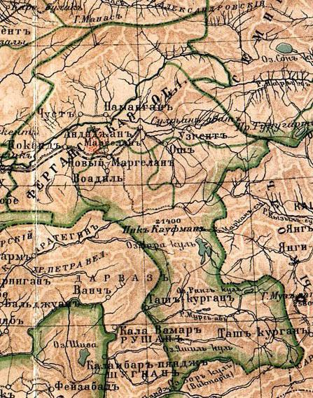 Map of Fergana Oblast (Russian Empire)